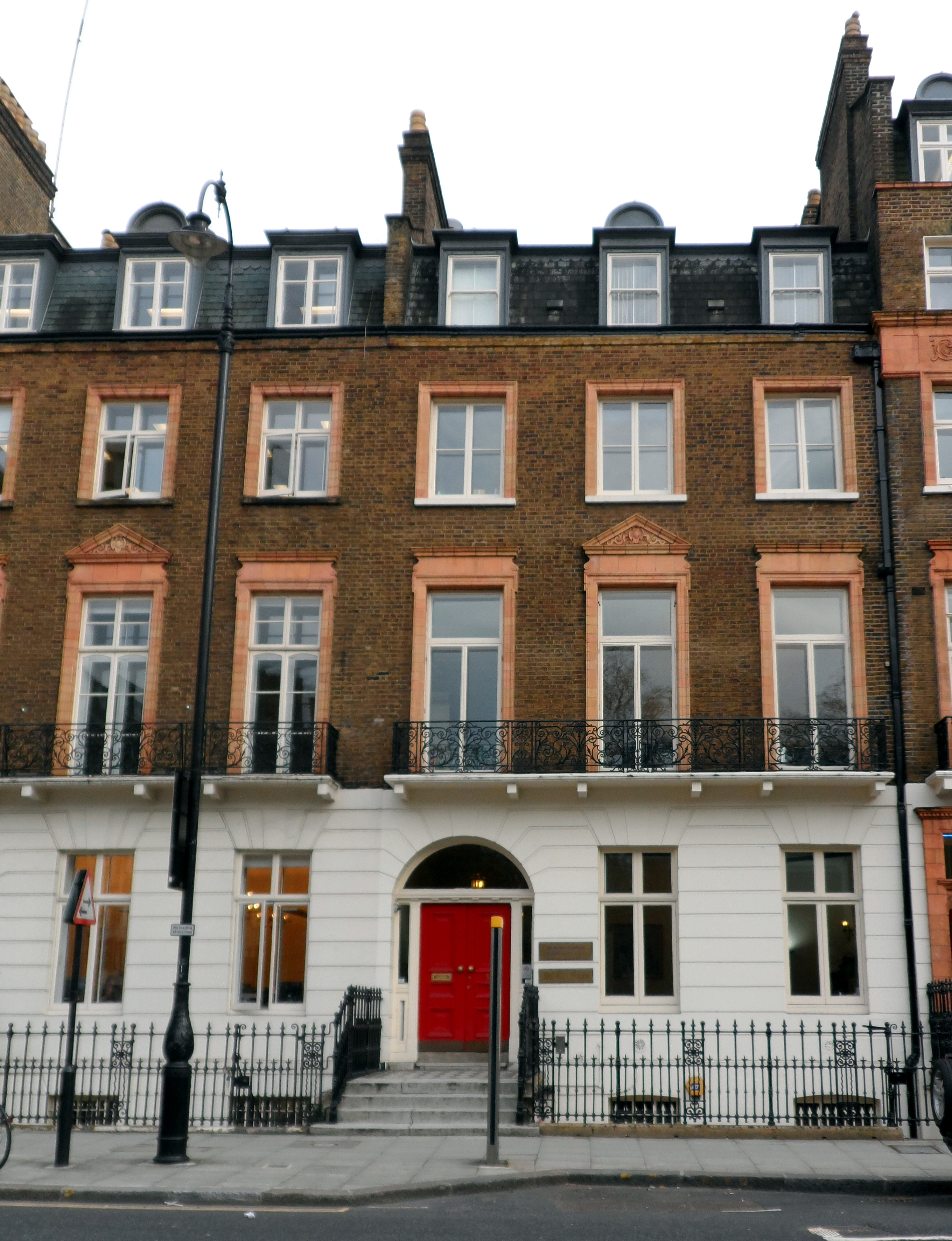 De Morgan House, 57-58 Russell Square, Bloomsbury, London. Offices of the London Mathematical Society.